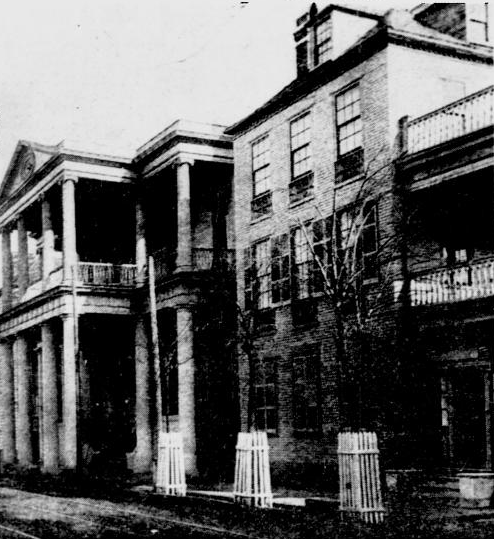 A photograph taken in 1883 showing the John Cordes Prioleau House (right) prior to Victorian alterations in the 1890s.